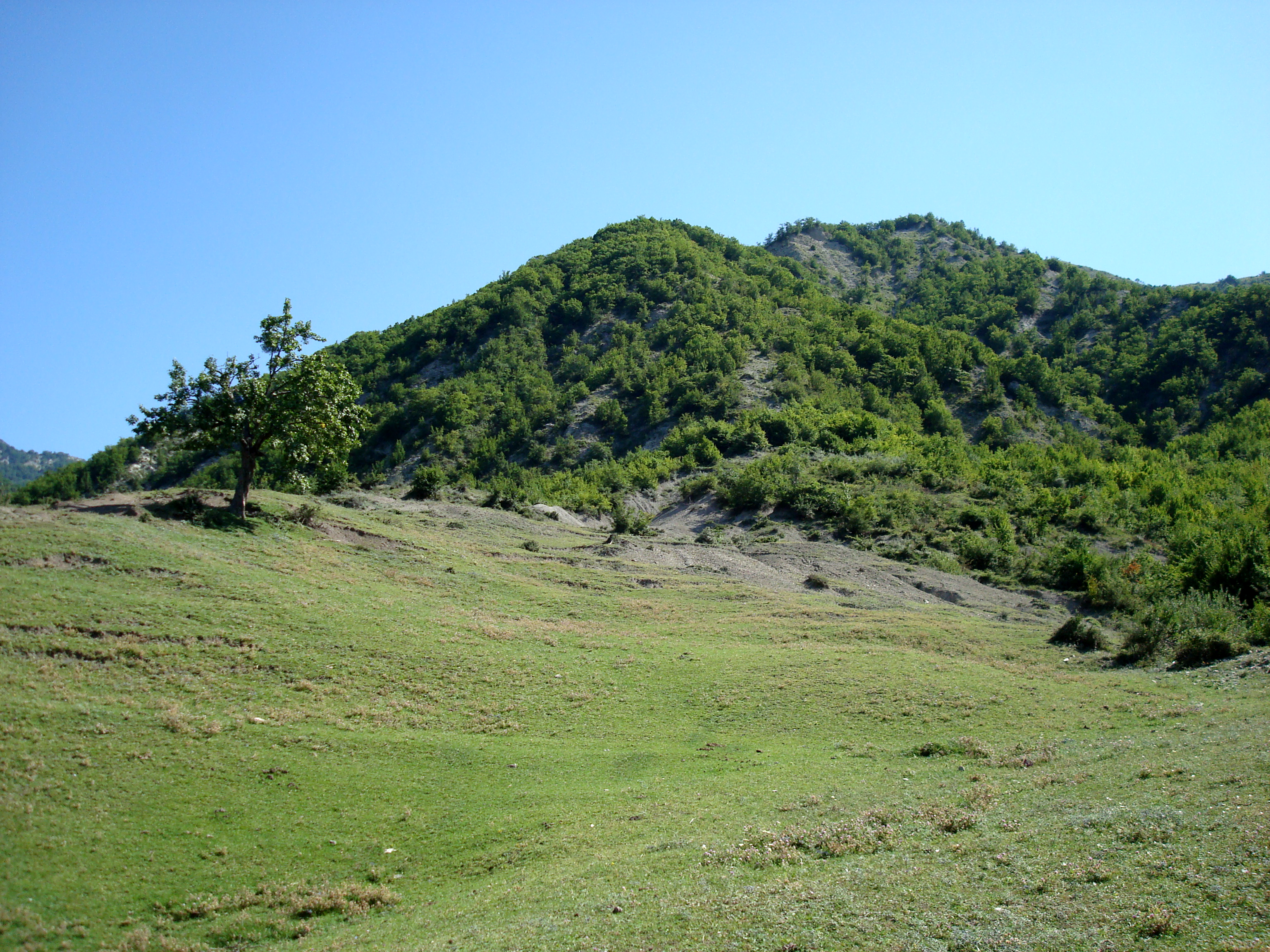 Ismaily region in Azerbaijan